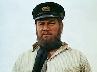 Screenshot of Peter Ustinov from the trailer for the film The Sundowners